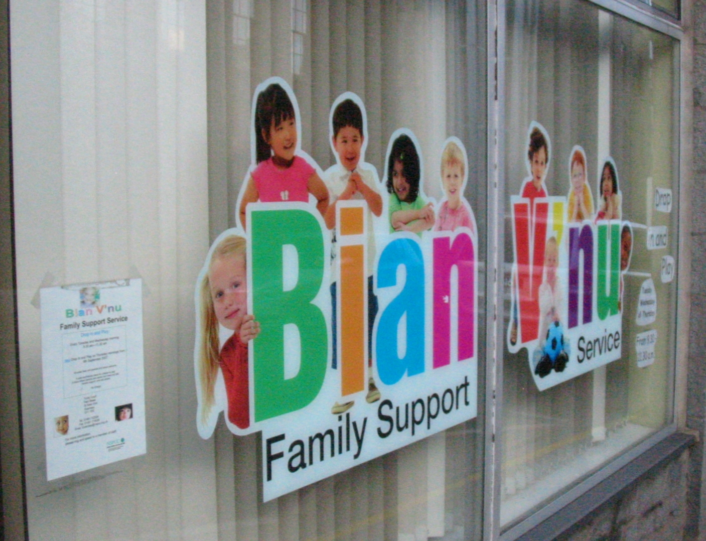 Saint Peter Port, Guernsey